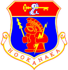 "Hookanaka" emblem of the Hawaii Air National Guard, U.S. Air Force.